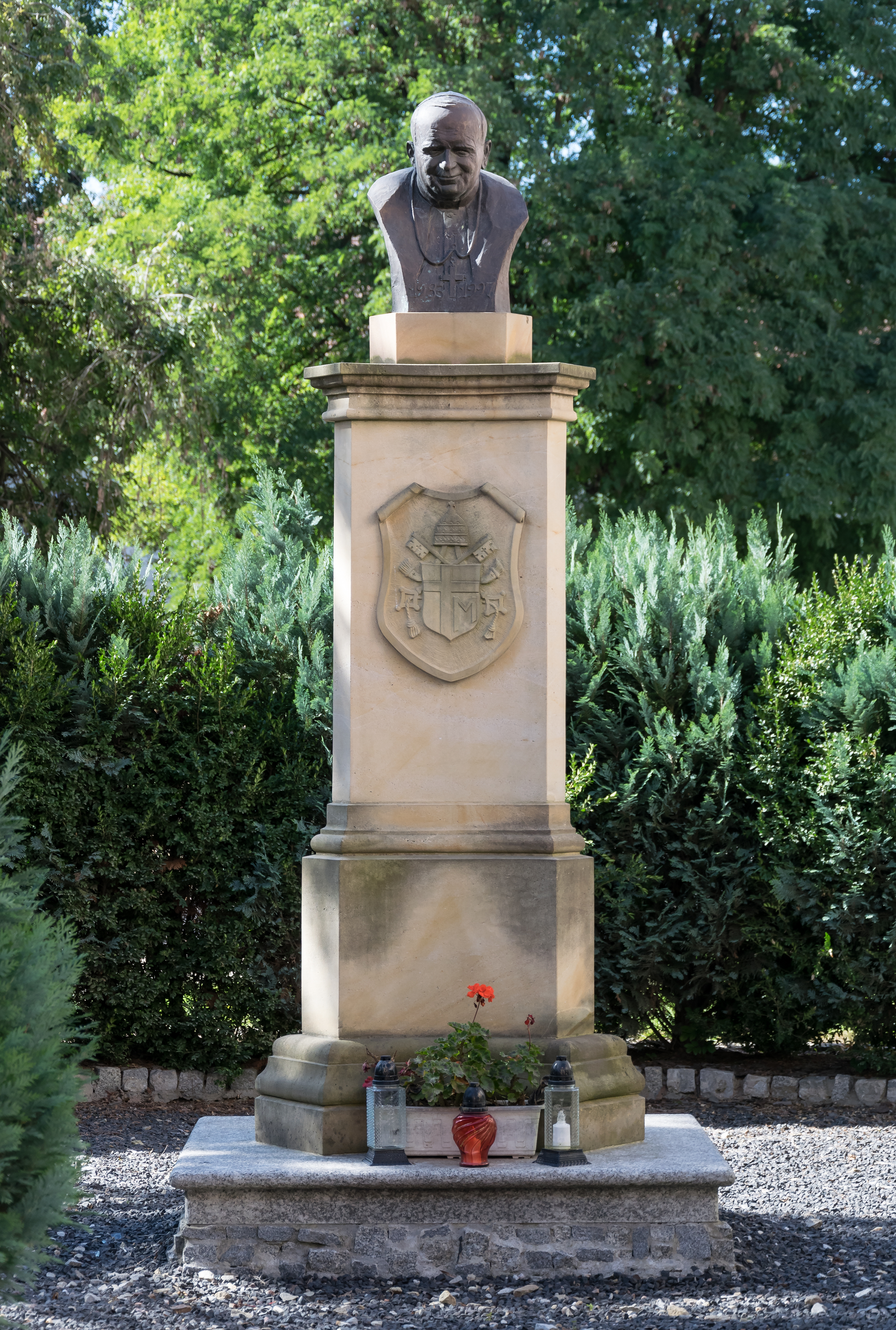 Bust of Ioannes Paulus II in Henryków